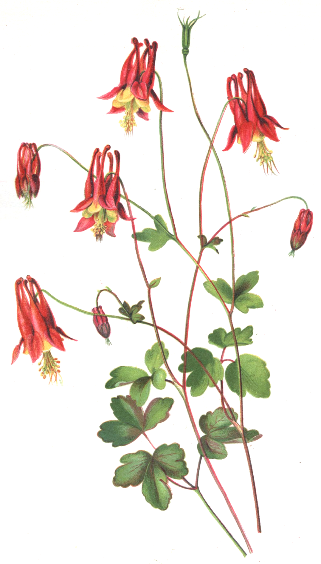 Wild Columbine (Aquilegia canadensis), drawn by Isaac Sprague